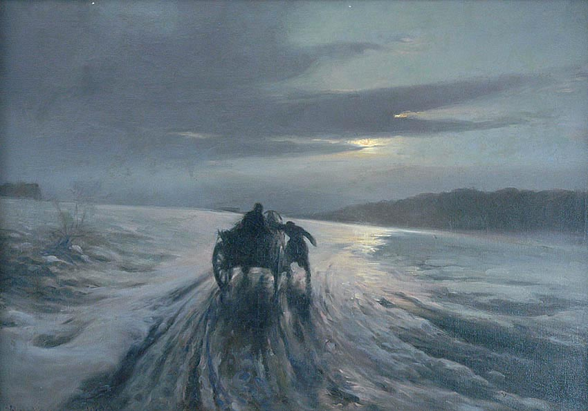 Powrót nocą, painting by Józef Ryszkiewicz